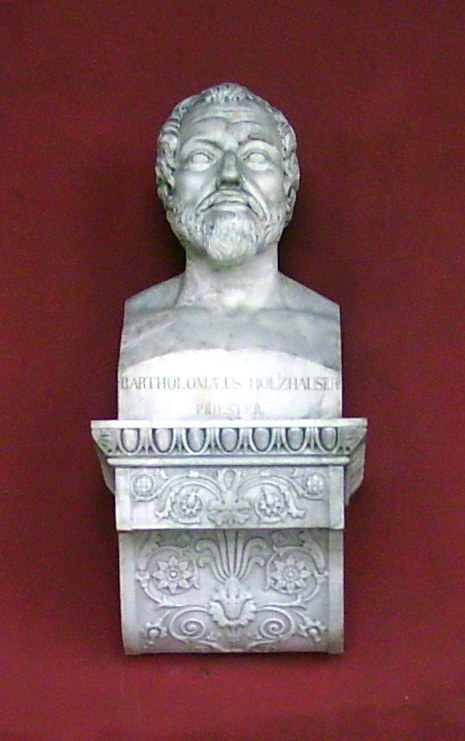 Bust of Bartholomäus Holzhauser at Ruhmeshalle ("Hall of fame"), München, Germany. Picture taken by myself: Dominik Hundhammer, München, 27 March 2006.